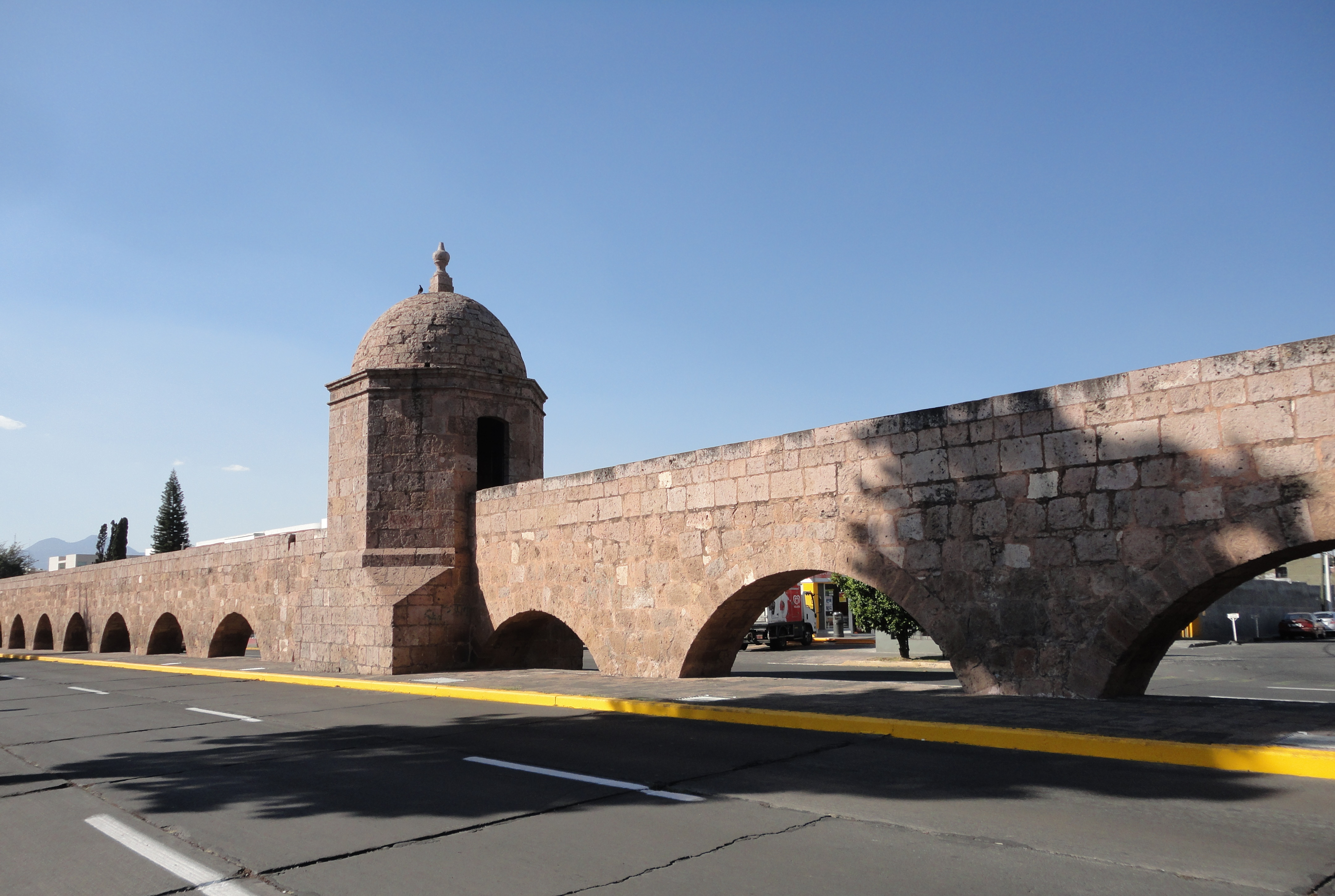 The iconic water box of the aqueduct of Morelia, this is the second of the two water boxes that the aqueduct has. Its purpose was to clear the water by retaining sediments.